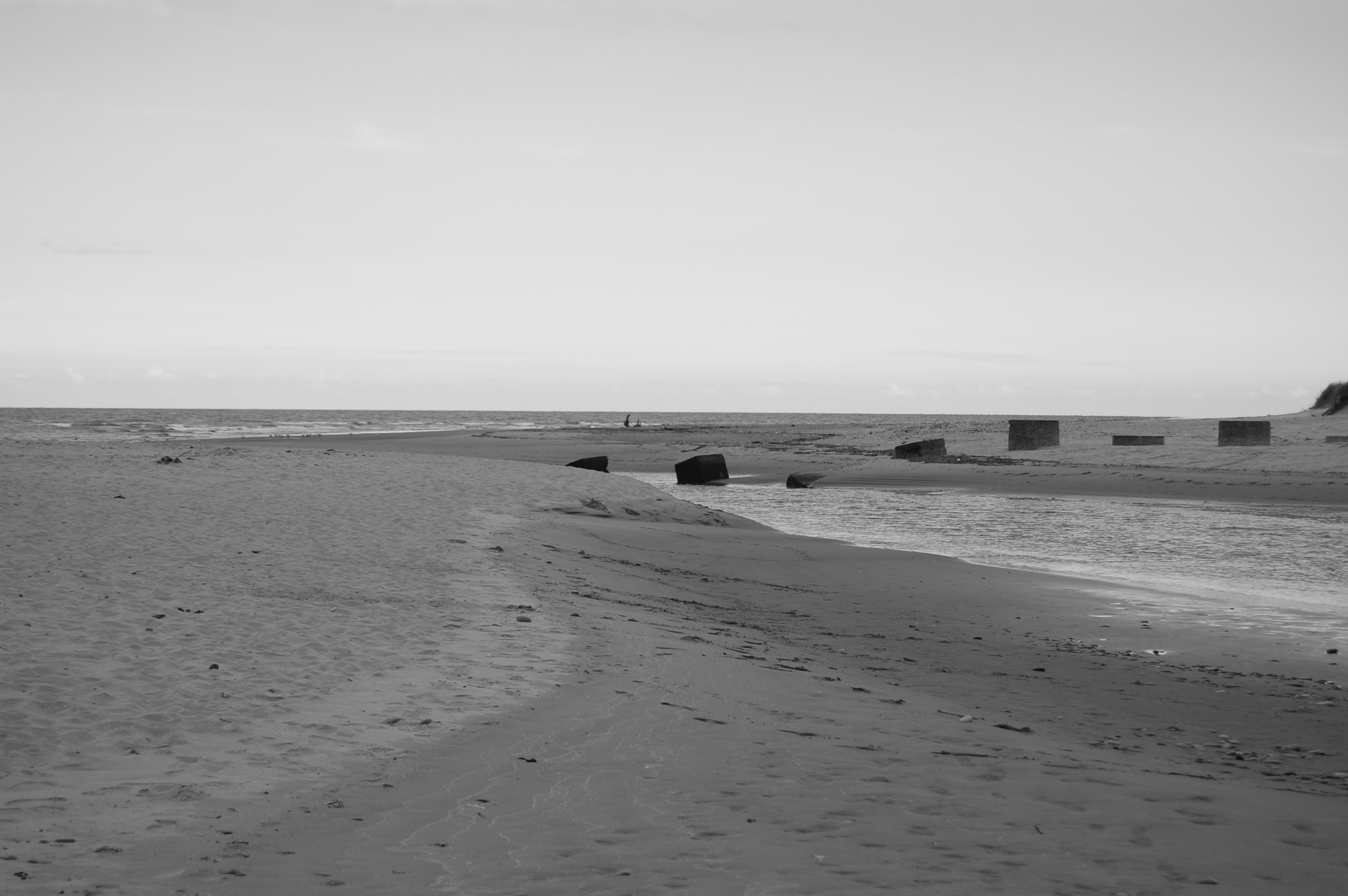 Lunan Bay, by Kyle Munro